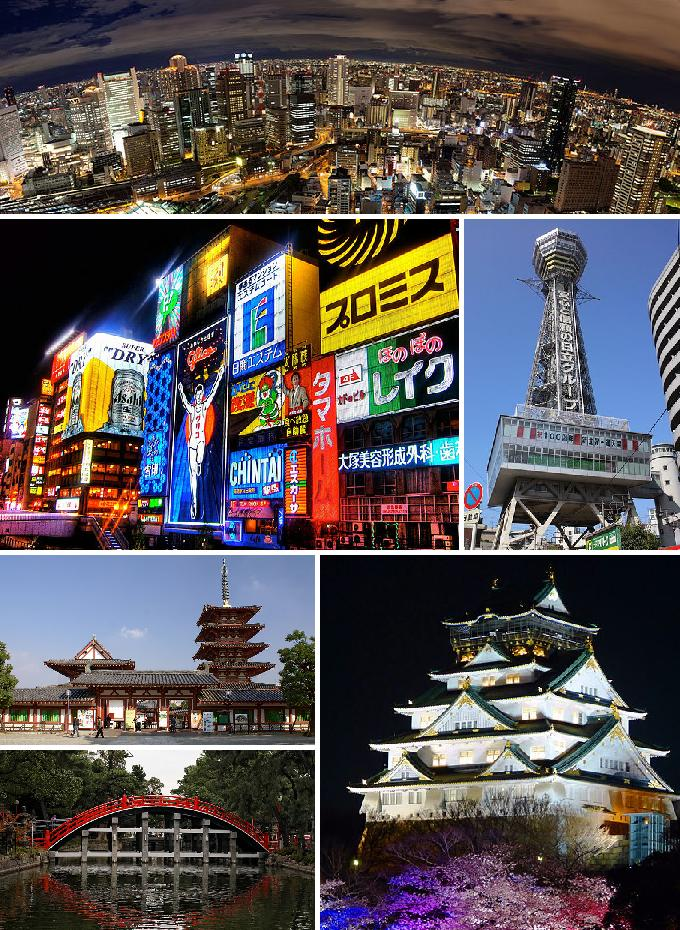 From top left: Night view from Umeda Sky Building, Dotonbori, Tsutenkaku, Shitennoji Temple, Sumiyoshi-taisha Shrine and Osaka Castle.